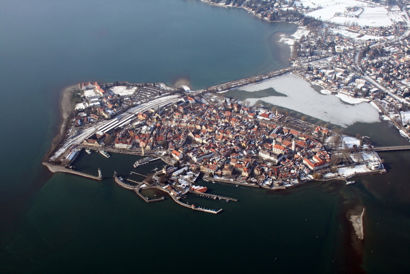 Lindau